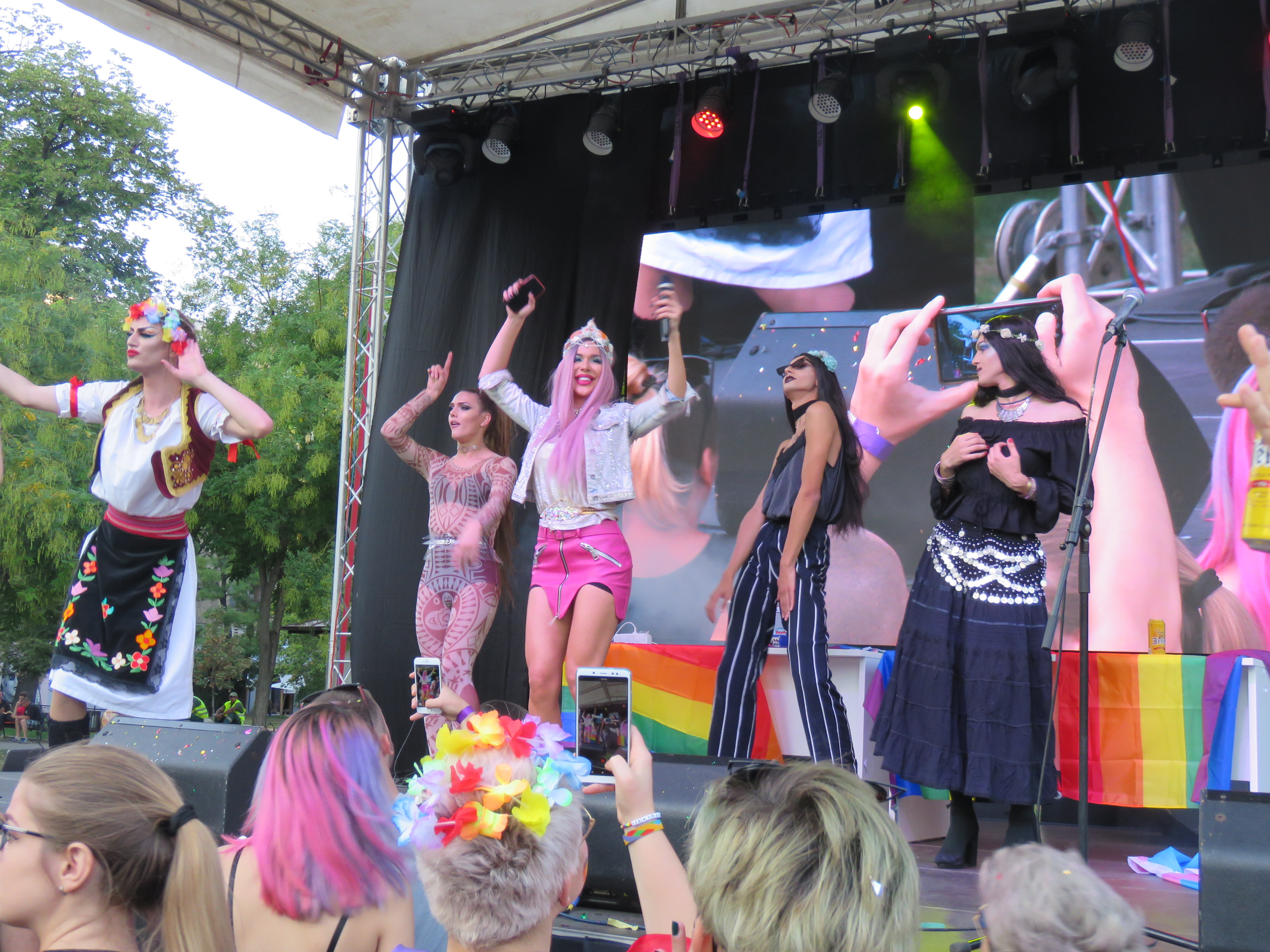 Belgrade Pride parade named "Say YES" took place on September 16th 2018, with over 1000 participants. Dita Von Bill, Alex Elektra, Vlažena Maria, Marina Visković, Ostroga Mi